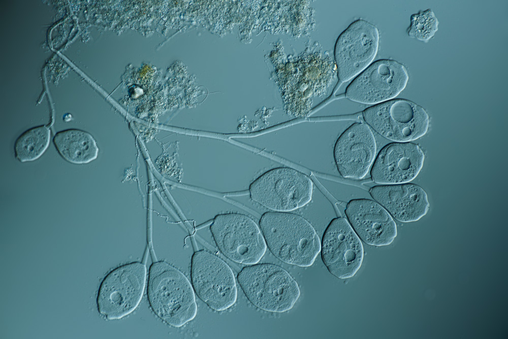 Vorticella species